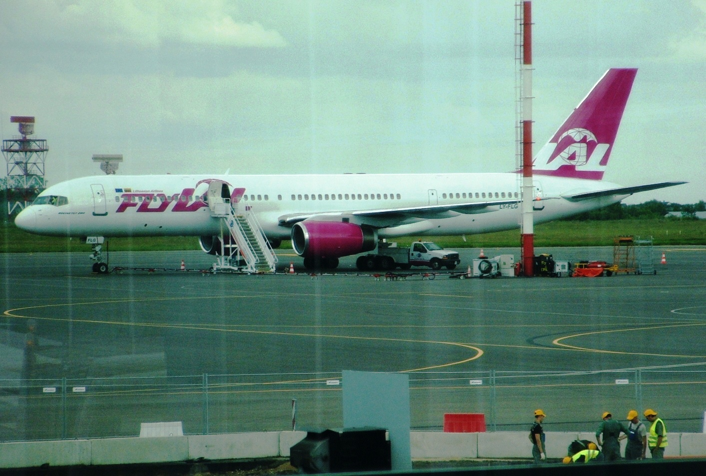 FlyLAL Boeing 757-200 (LY-FLG) at Vilnius airport